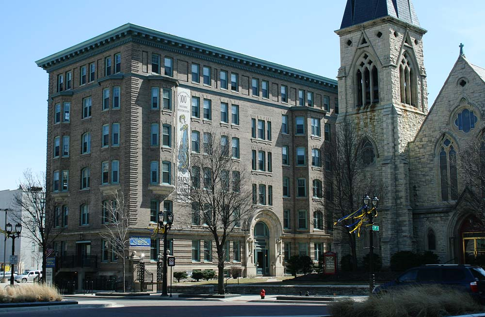 Saint James Court Apartments, Milwaukee, Wisconsin, National Register of Historic Places. Next door to the Saint James Episcopal Church.